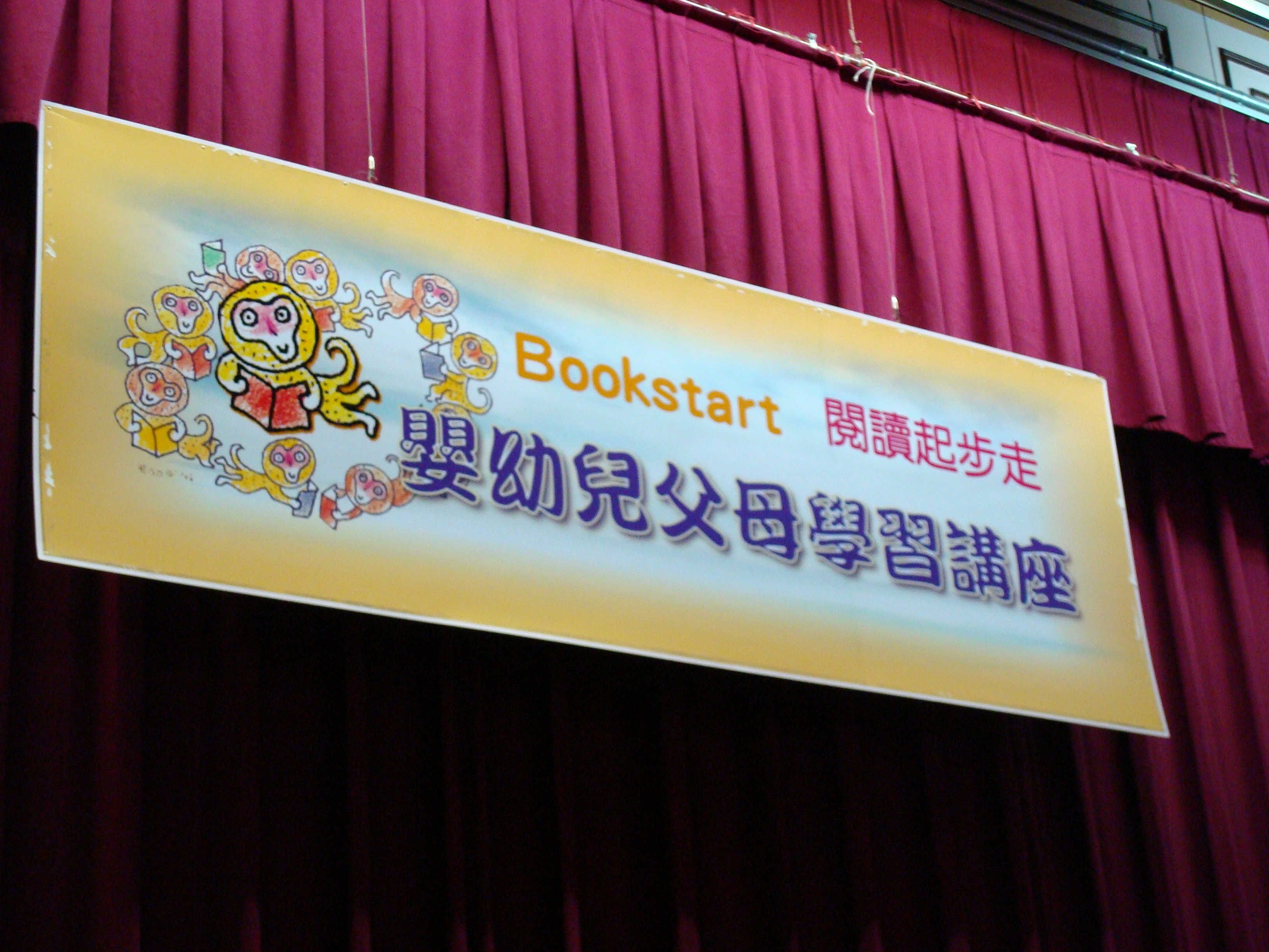 Bookstart lecture course for parents in Taipei Public Library in Taiwan, in 2008.